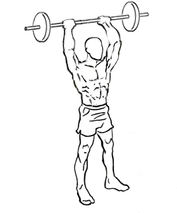 an exercise of triceps